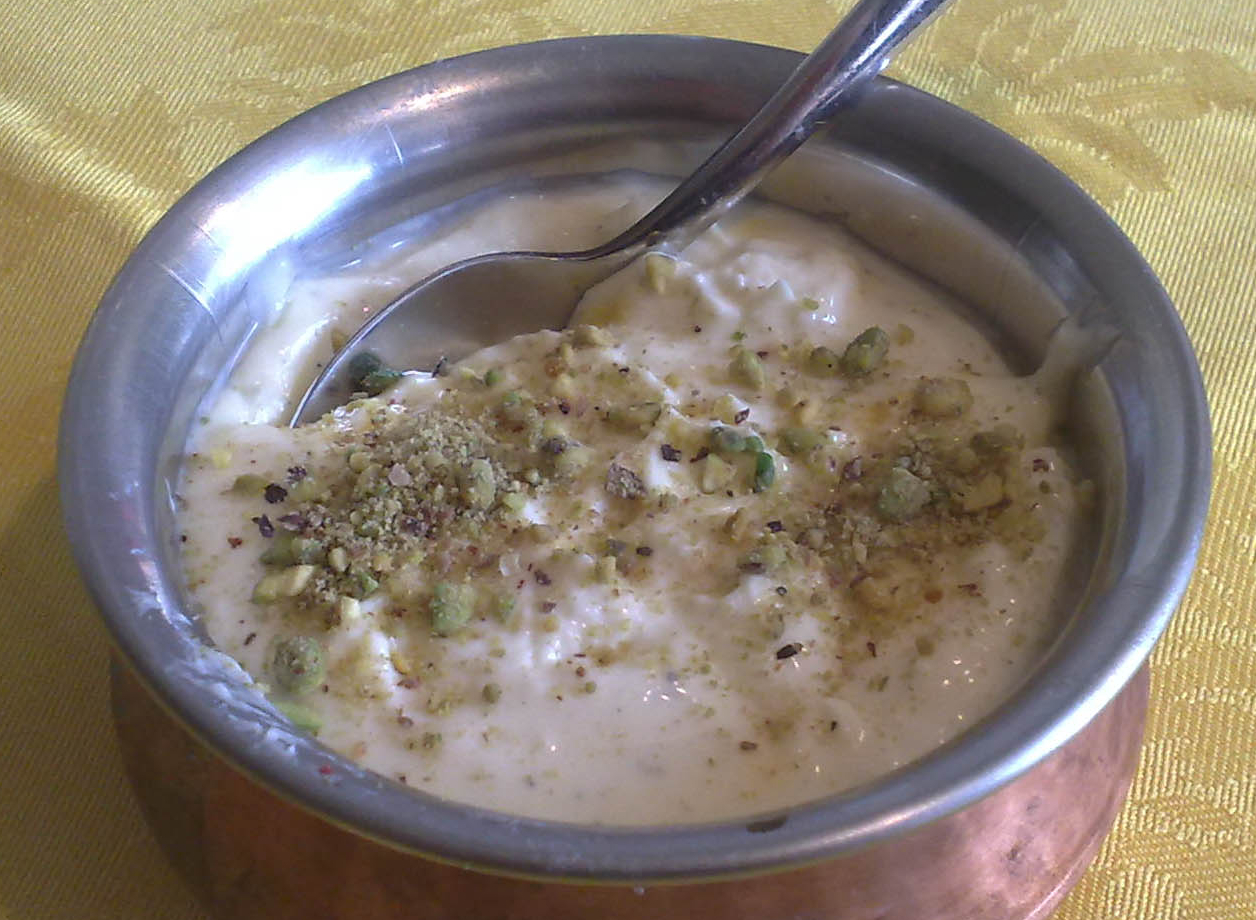 Shrinkhand Indian dessert.